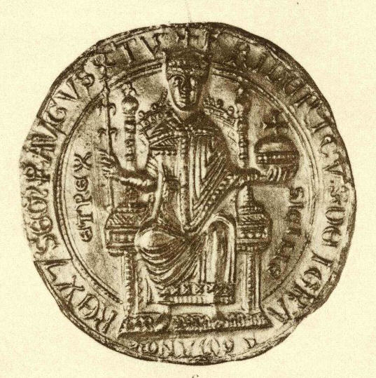 This is a scan of the historical document